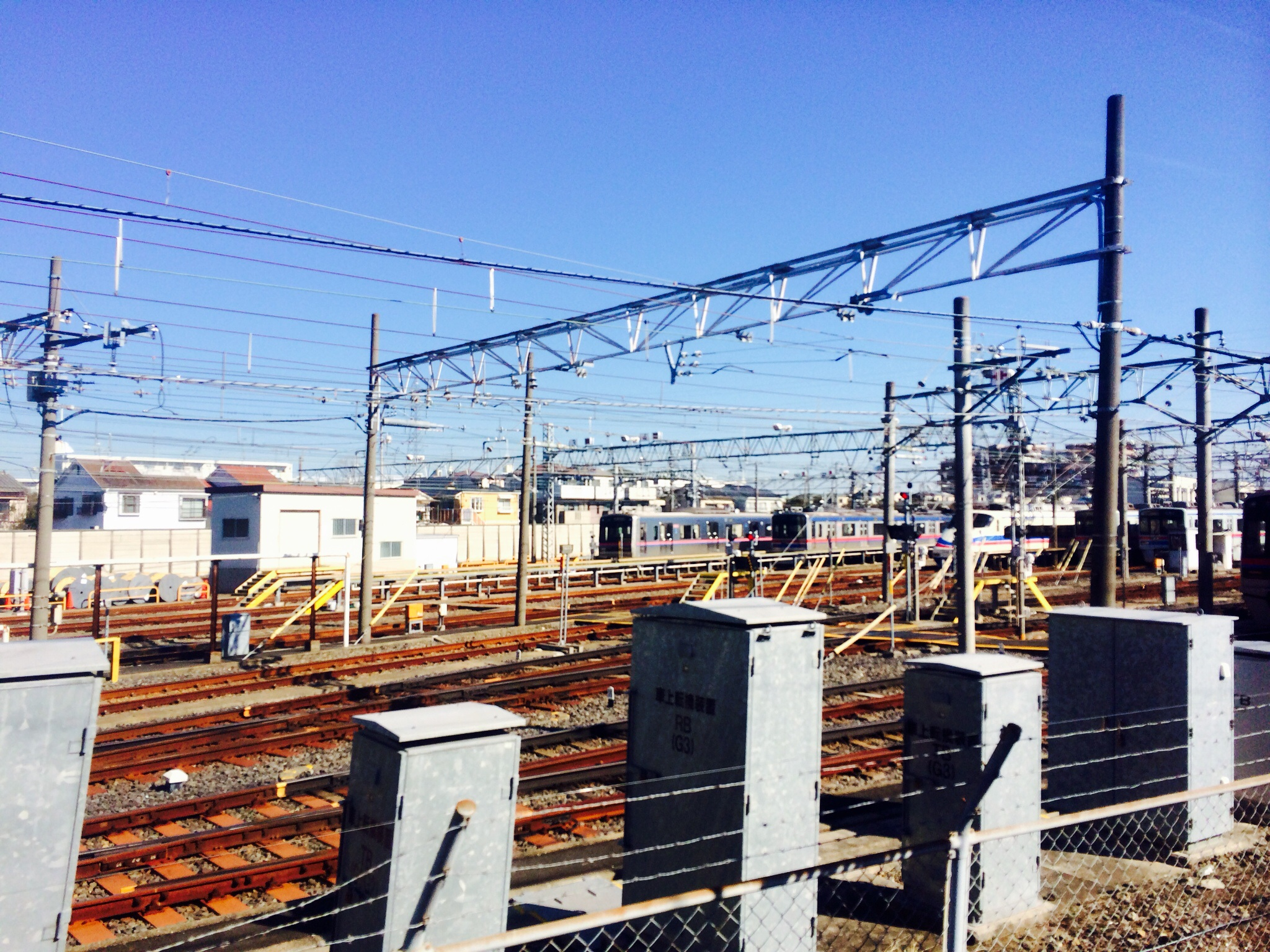 Keisei Electric Railway Takasago Depot